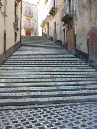 Salita Lucio Marineo (Tiled stairs near municipio)(Vizzini,Italy)